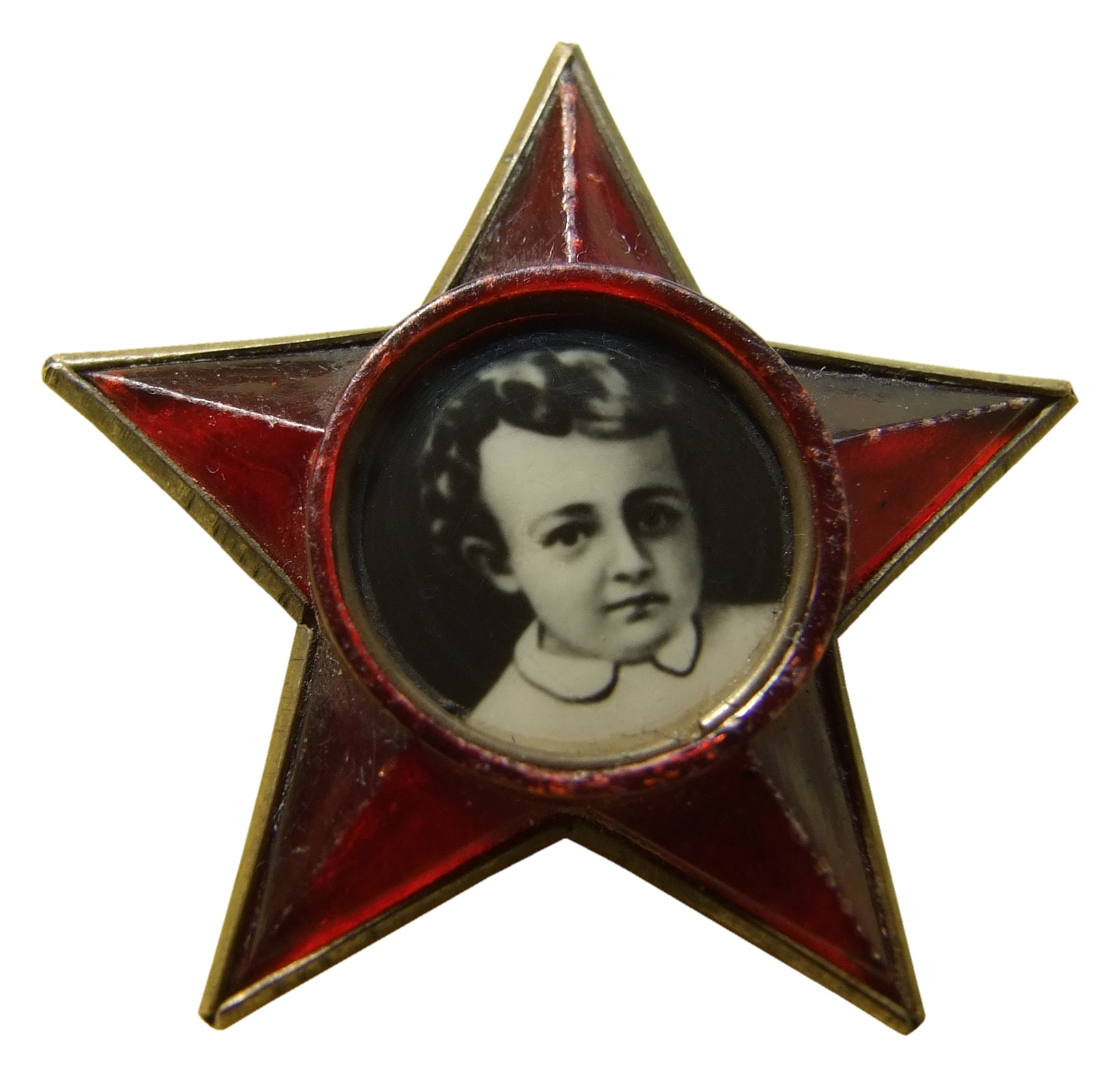 Pin of the Oktoberchilds of USSR (7-9 years old) Picture of young Lenin